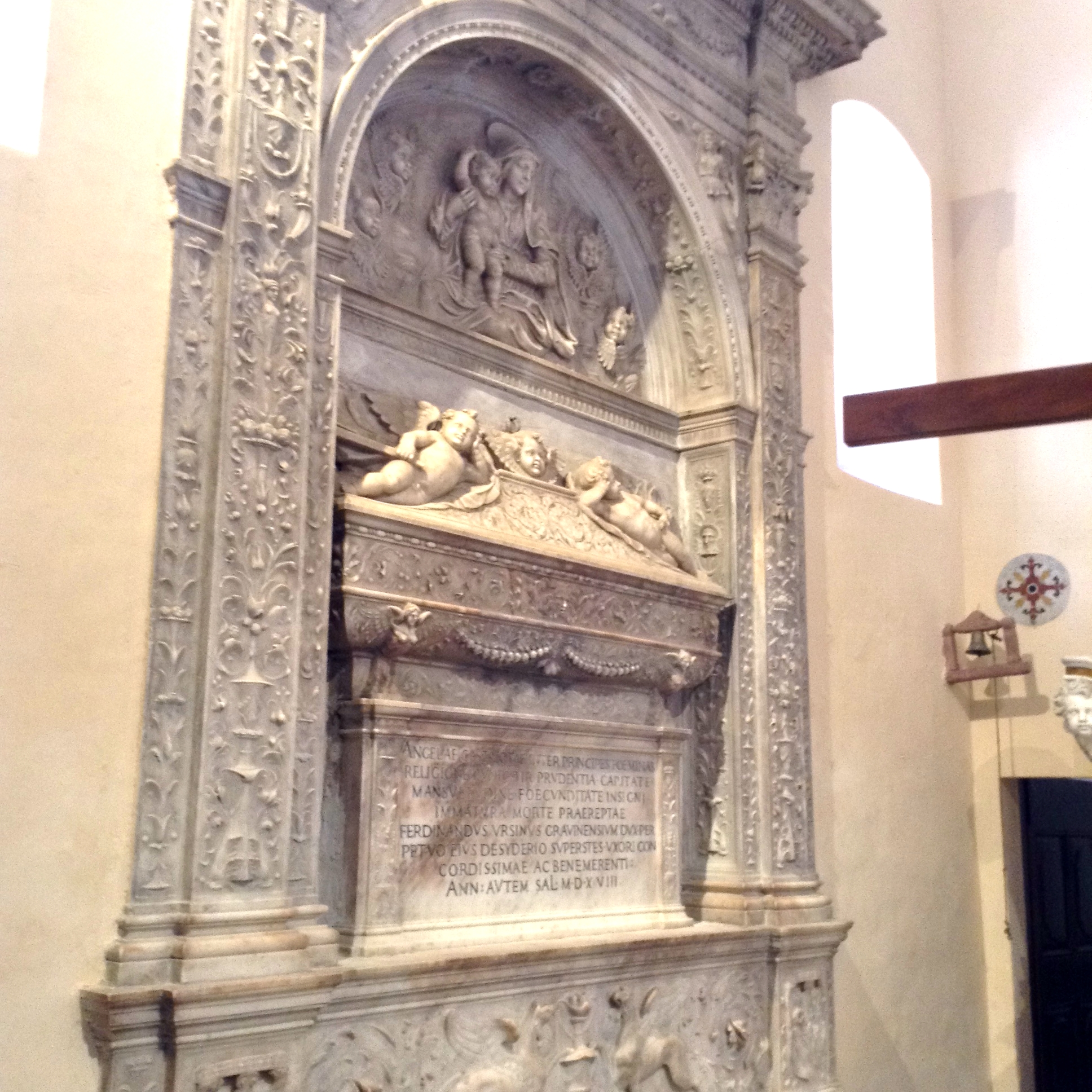 Mausoleum of Angela Branai (Granai) Kastrioti (+1518), wife of Ferdinando Orsini, 5th Duke of Gravina in Puglia